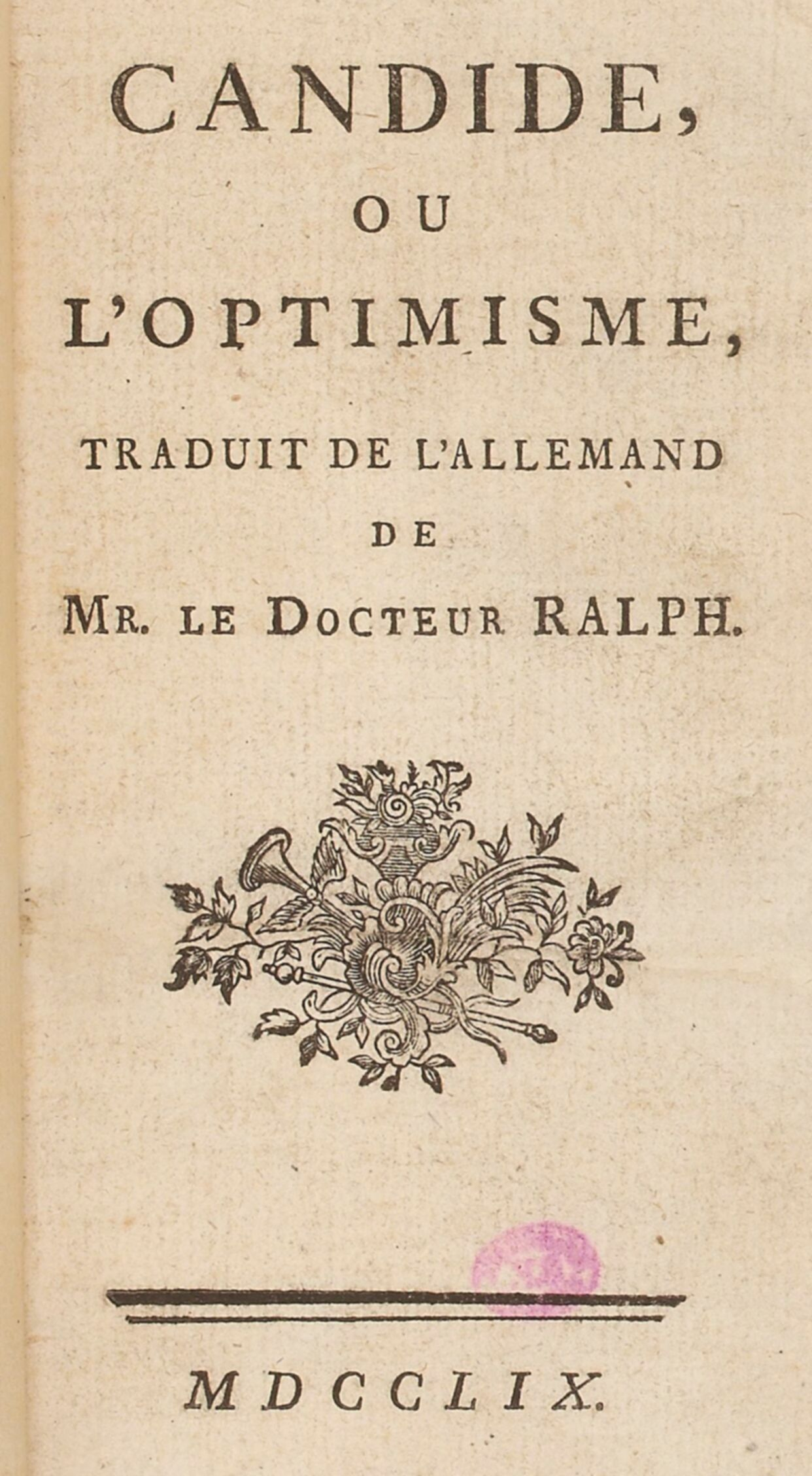 This was a frontispiece of Voltaire's Candide, or Optimism. It reads, "Candide, or Optimism. Translated from the German of Dr. Ralph."